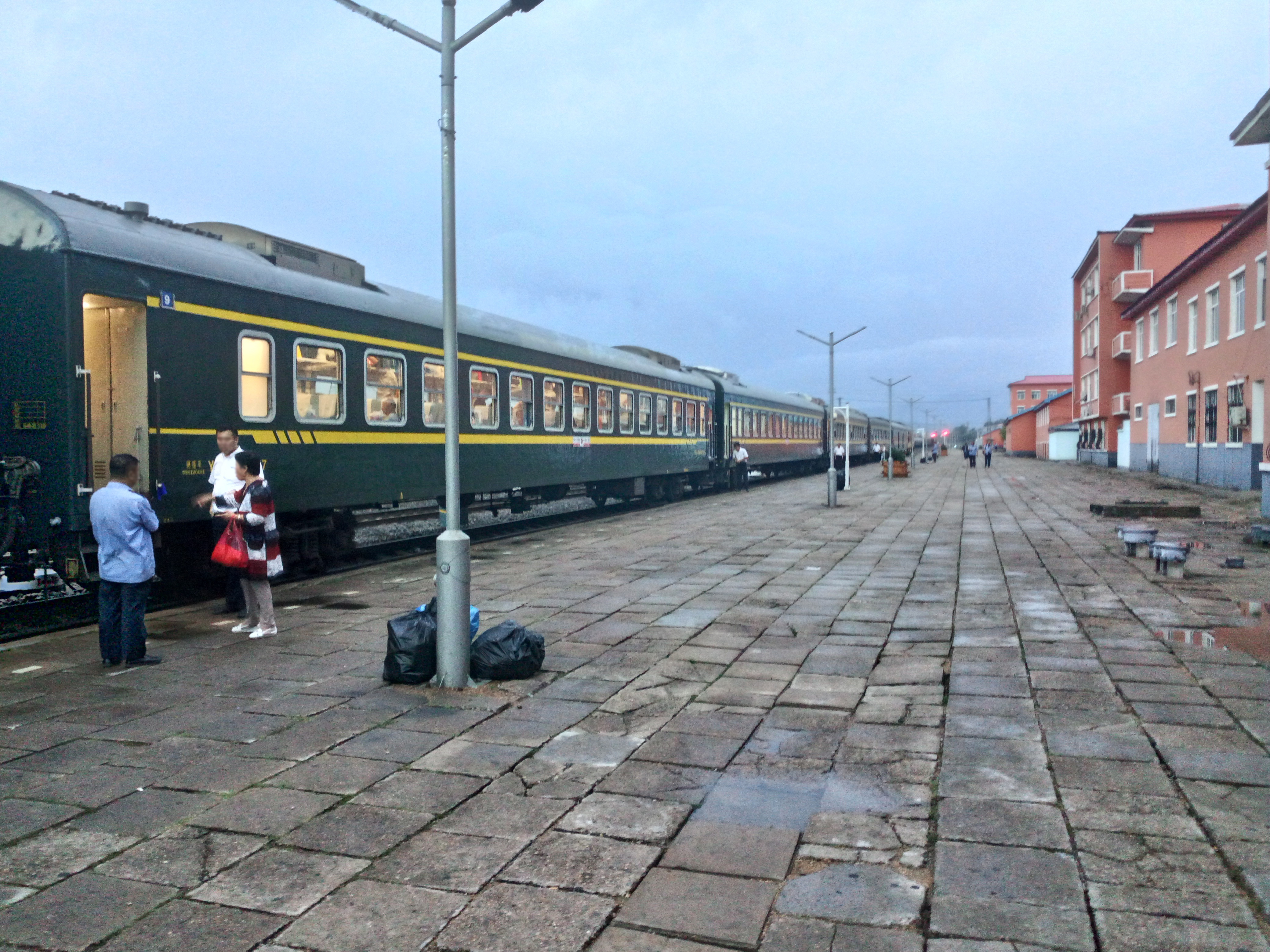 China Railways Train K1022 boarding in Nancha Station, Heilongjiang Privince